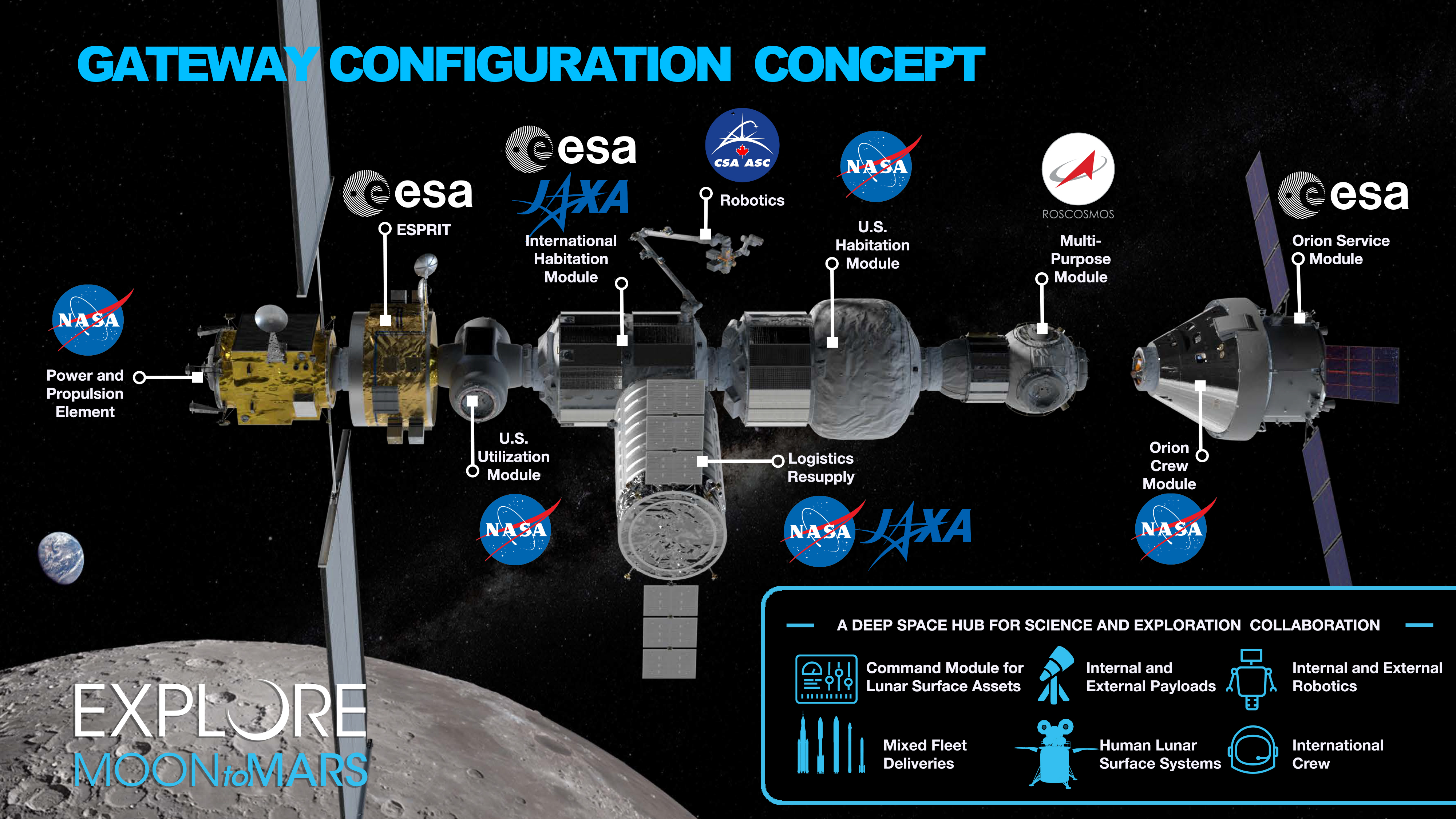 Map of the modules for the proposed Lunar Orbital Platform-Gateway station, to operate on the Moon and obtain construction within the 2020s